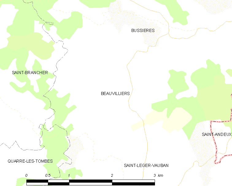 Map of French municipality Beauvilliers